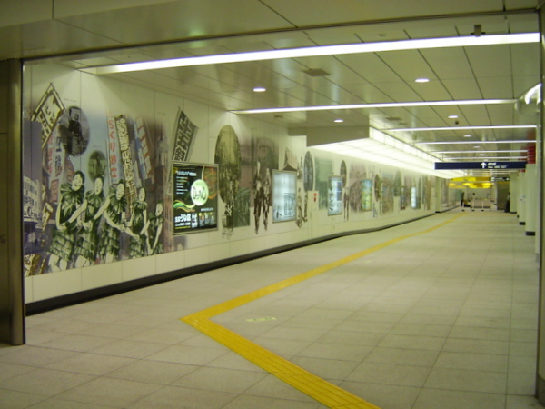 Tsukuba Express Asakusa Station concourse.